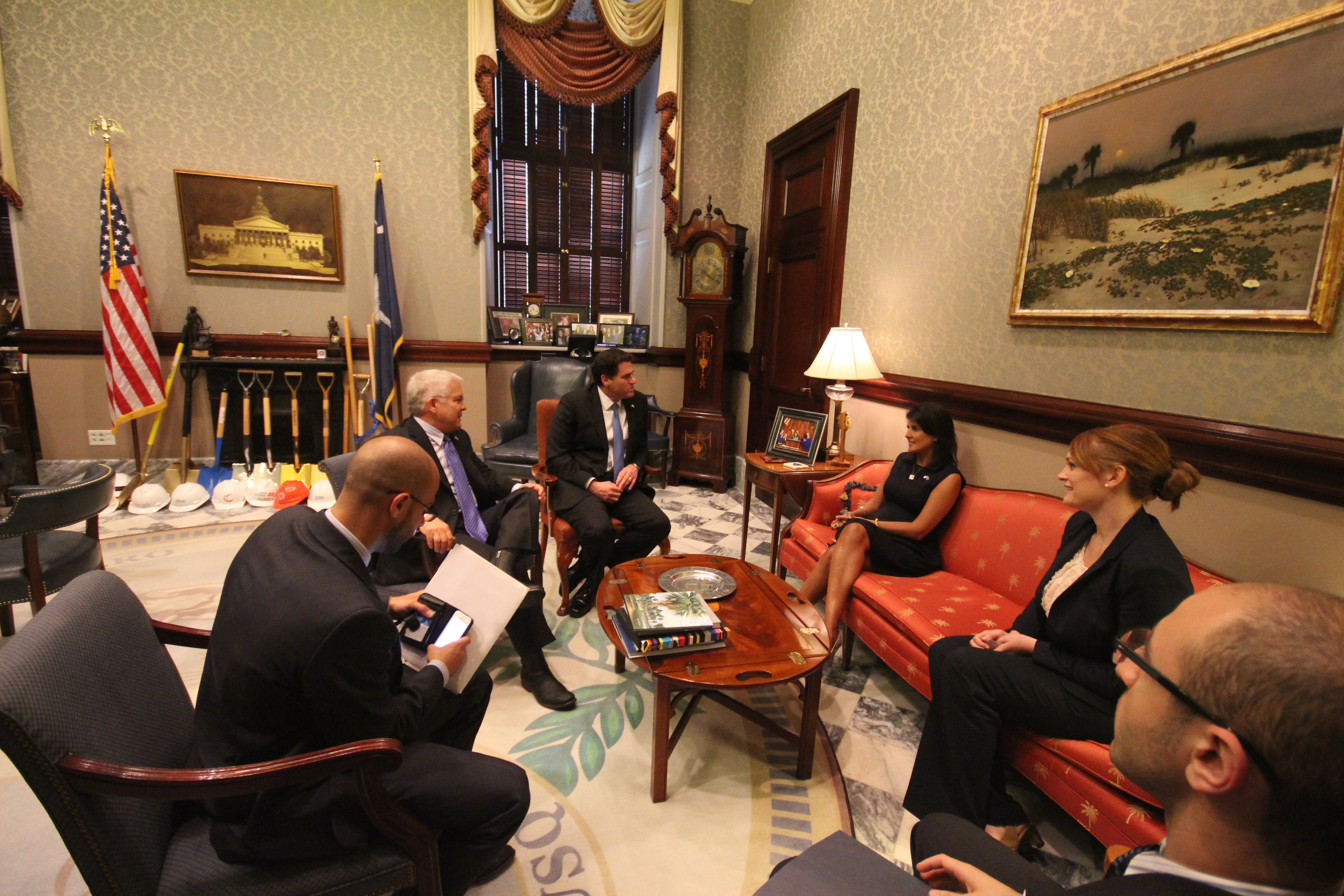 May 28, 2014 Governor Nikki Haley meets with Israeli Ambassador Ron Dermer. (Official Governor's Office Photo by Zach Pippin) Nikki Haley meets with Ron Dermer